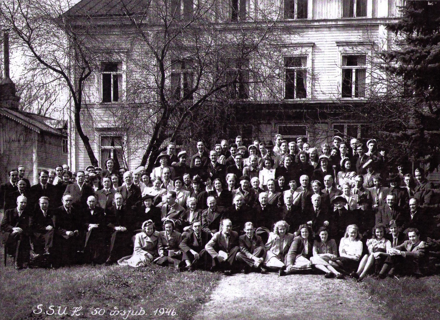 Group photo from Sveriges studerande ungdoms helnykterhetsförbund jubilee in 1946, taken outside Nykterhetvännernas Studenthem.